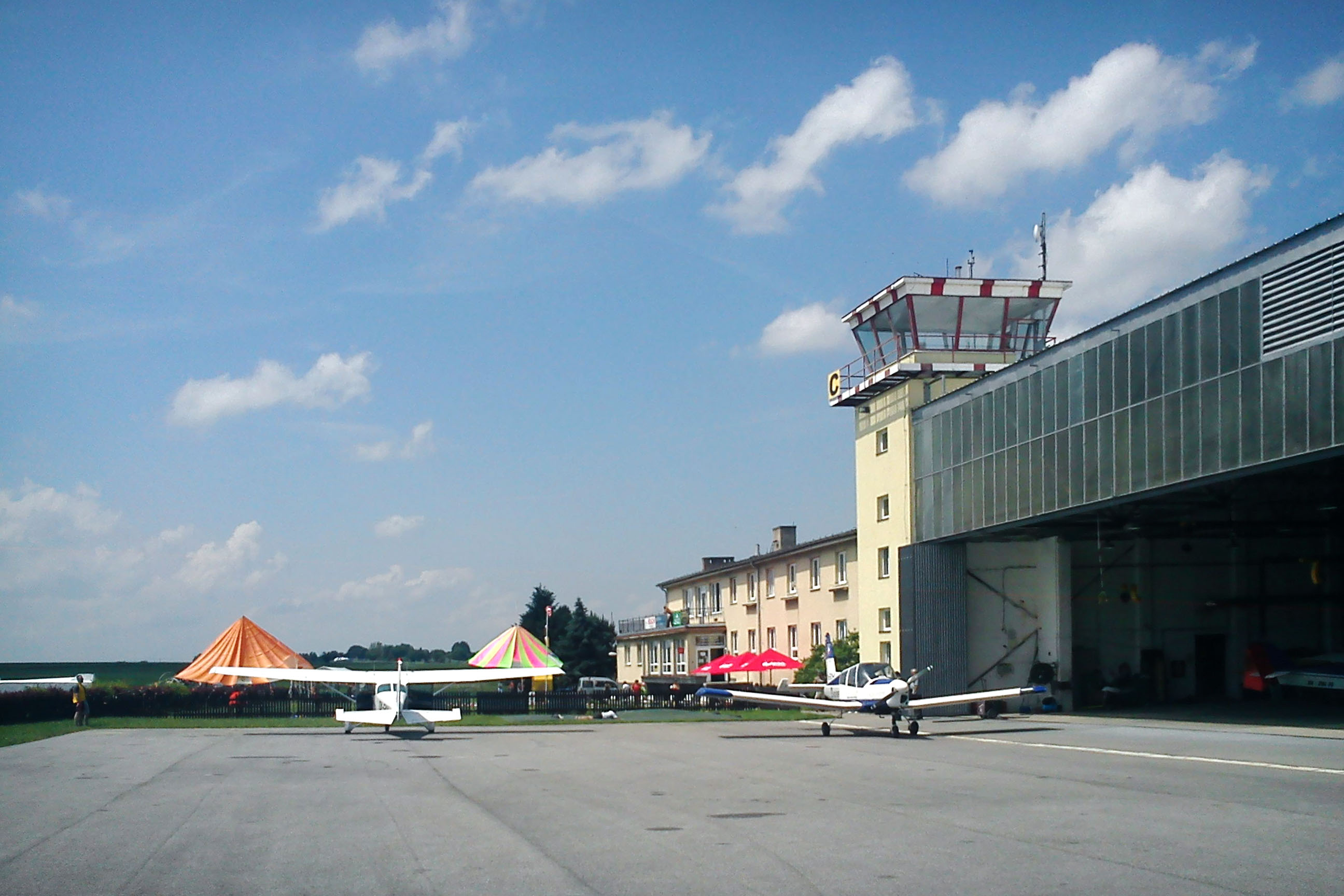 Hosín Airport near the village of Hosín, České Budějovice District, Czech Republic. Česky: Letiště Hosín u obce Hosín v okrese České Budějovice.